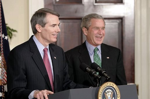 Congressman Rob Portman, R-Ohio, speaks during a ceremony in which President George W. Bush nominated him to be the next U.S. Trade Representative during a ceremony in the Roosevelt Room Thursday, March 17, 2005. source